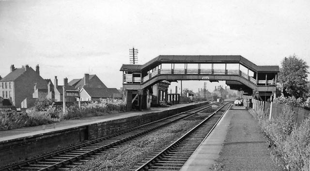 Brierley Hill Station View NE, towards Wolverhampton; ex-GWR Worcester - Stourbridge Junction - Dudley - Wolverhampton secondary main line. Station closed to passenger 30/7/62.